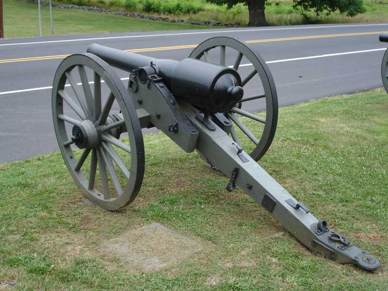 photographed at Gettysburg National Military Park, 2005